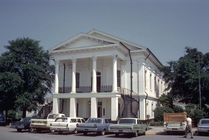 Barnwell County Courthouse, Barnwell, South Carolina This image or file is a work of a United States Department of Agriculture employee, taken or made as part of that person's official duties. As a work of the U.S. federal government, the image is in the public domain.